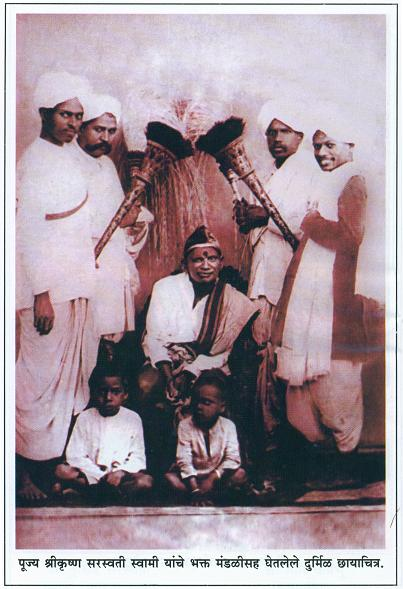 Swamijis photo taken in Kolhapur in about year 1860.